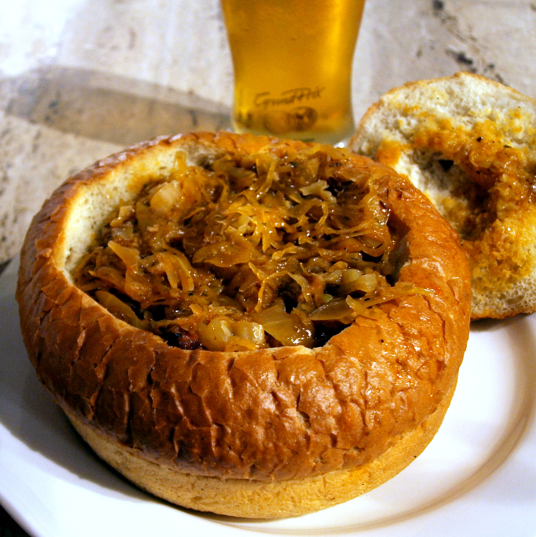 Bigos (Polish hunter's stew) and a glass of Tyskie beer at a restaurant in central Kraków, Poland.